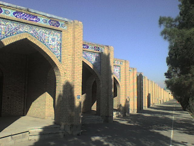 Tehran Cemetry (Beheshte zahra)